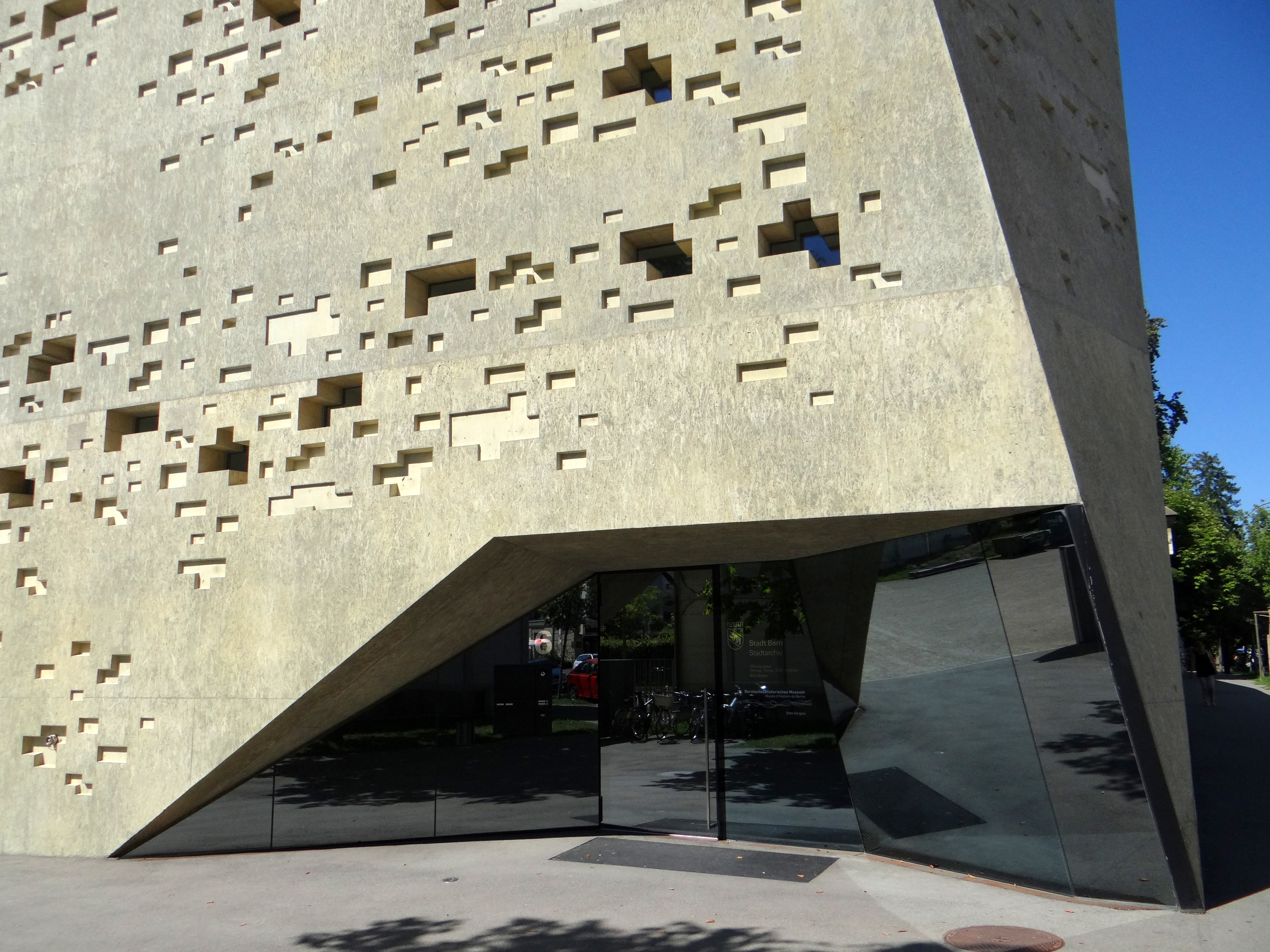 Museum of History